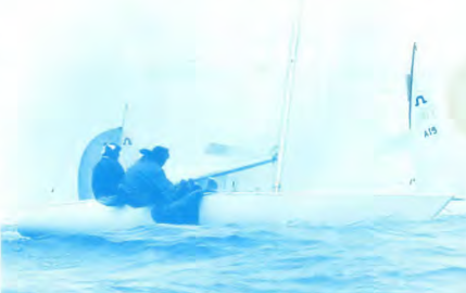 Elvstrom to windward with Bruce and Hans hiked out during the 1974 Soling Worlds Sydney